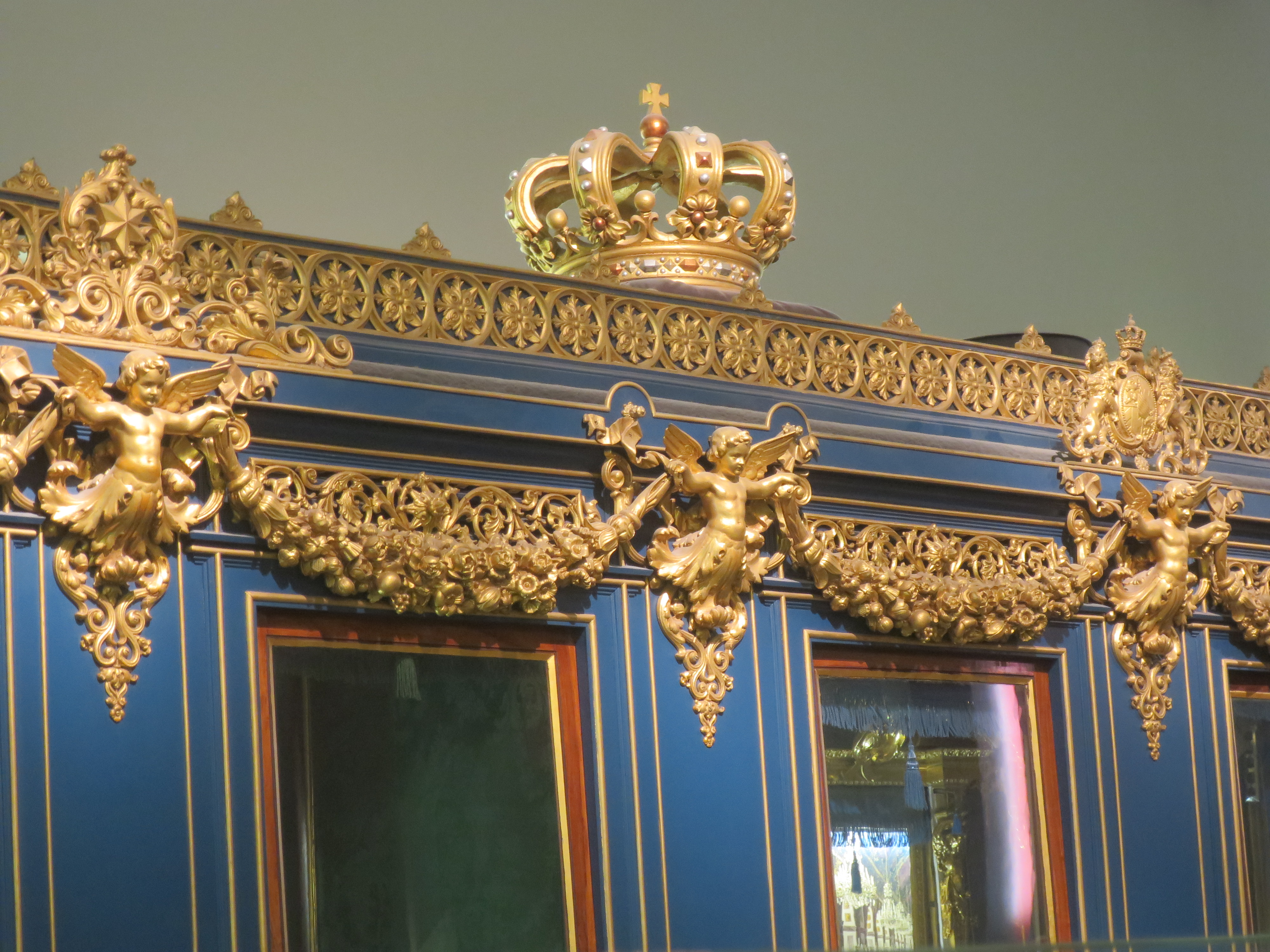 Detail of royal Saloon of king Ludwig II. of Bavaria